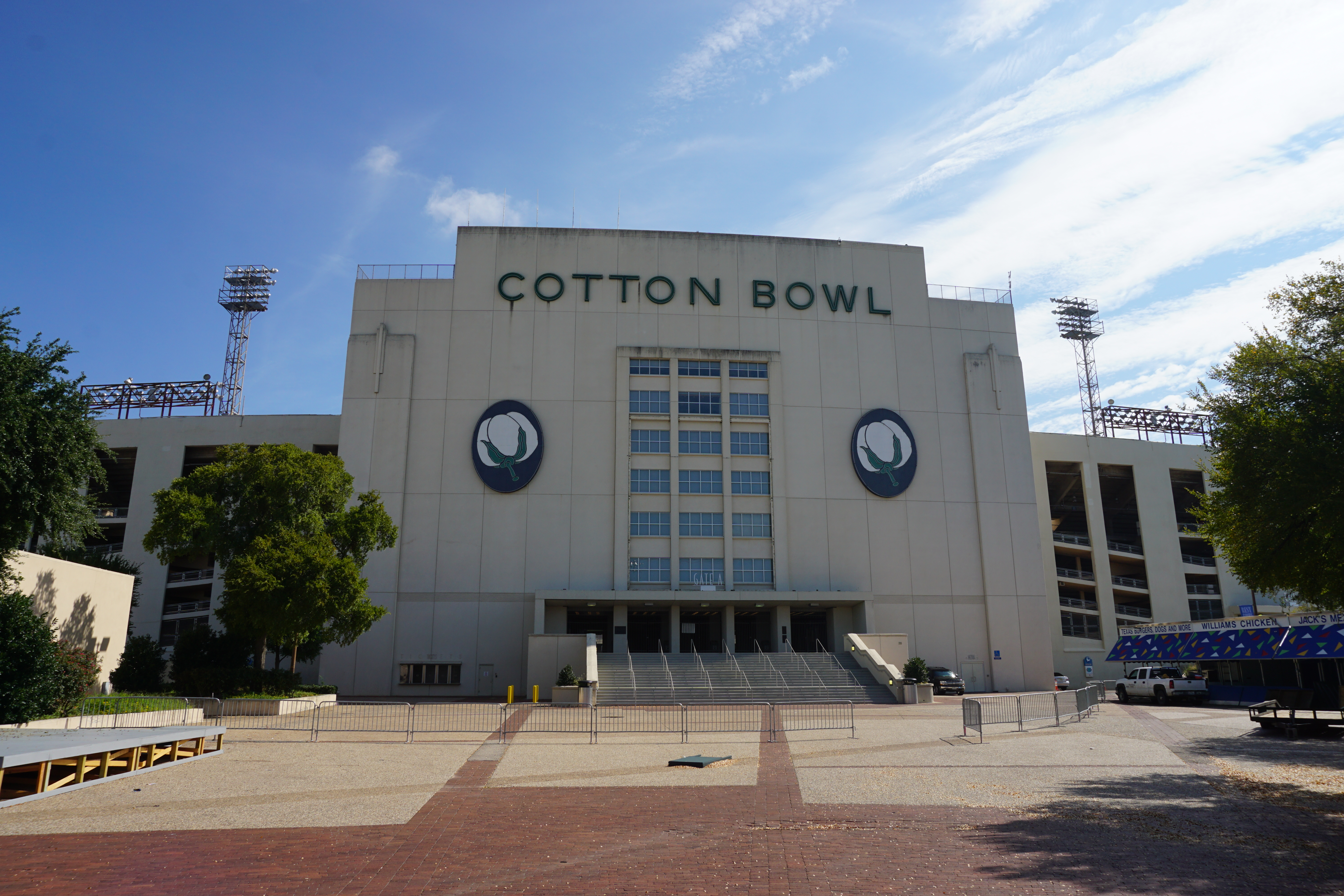 The Cotton Bowl Stadium at Fair Park in Dallas, Texas (United States).